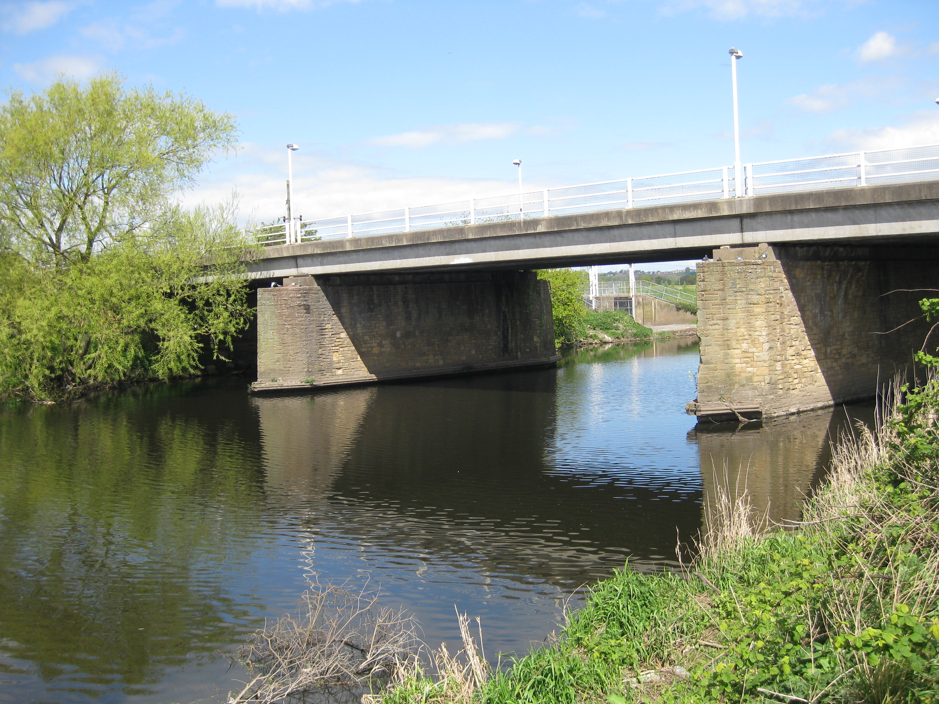 Methley Bridge (Bridge 10). The A639 Barnsdale Road crosses the River Calder.